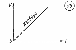 изобара